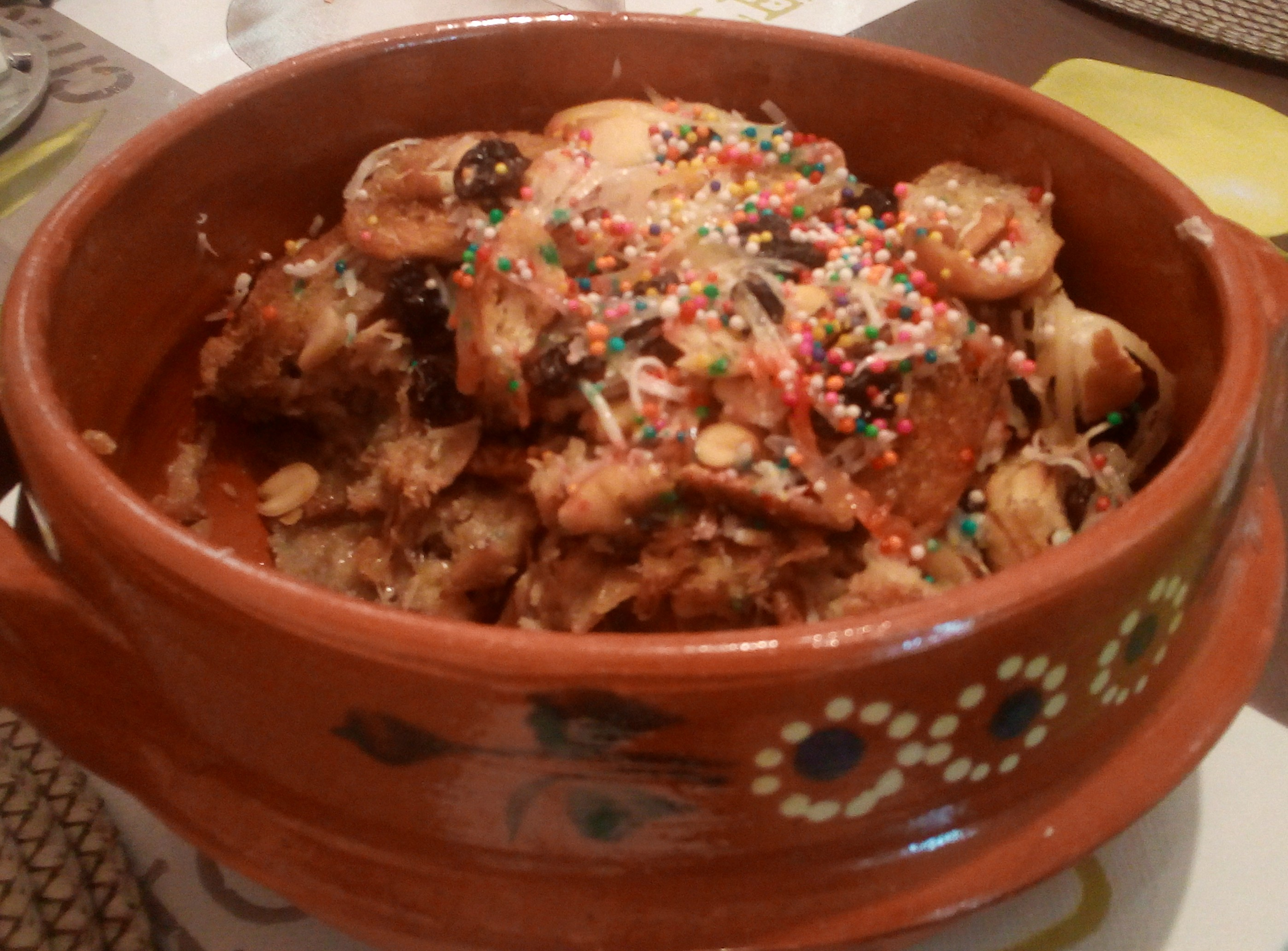 Capirotada in traditional Mexican pottery